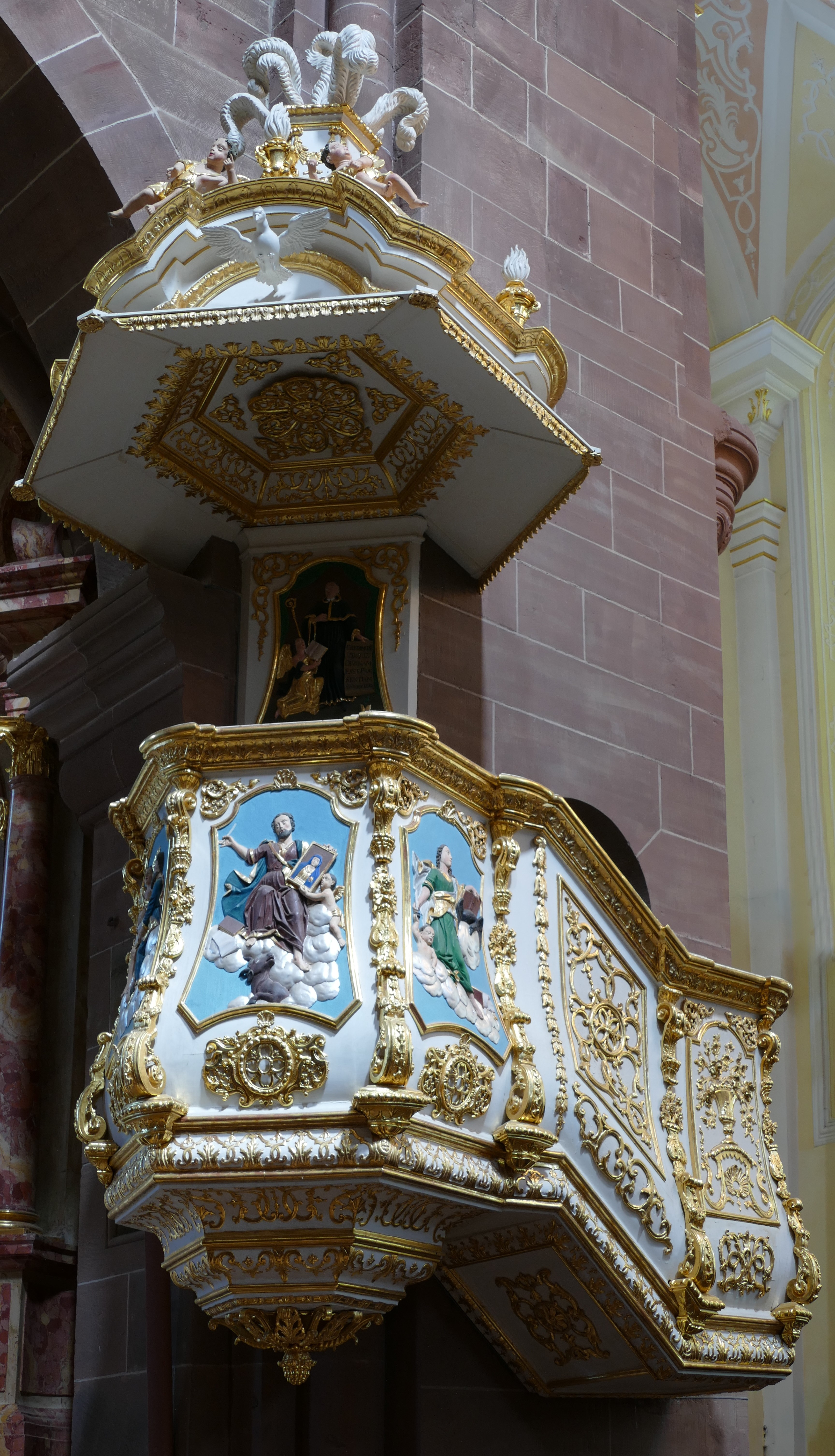 Alsace, Bas-Rhin, Altorf, Église abbatiale Saint-Cyriaque (PA00084581, IA67011108). Chaire à prêcher baroque (XVIIIe). This object is classé Monument Historique in the base Palissy, database of the French furniture patrimony of the French ministry of culture, under the references PM67000006 and IM67016985.